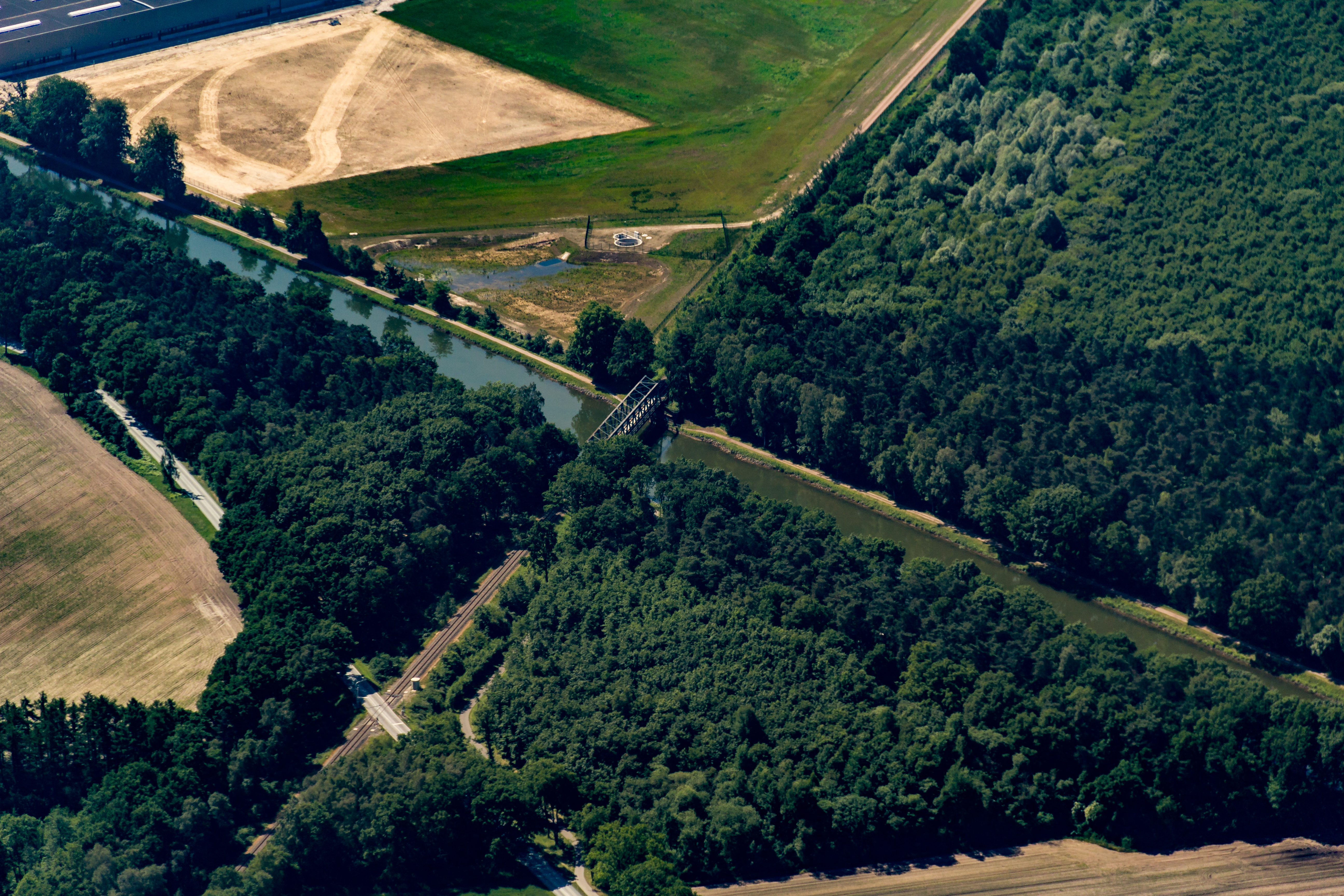 Dortmund-Ems canal, Rheine, North Rhine-Westphalia, Germany